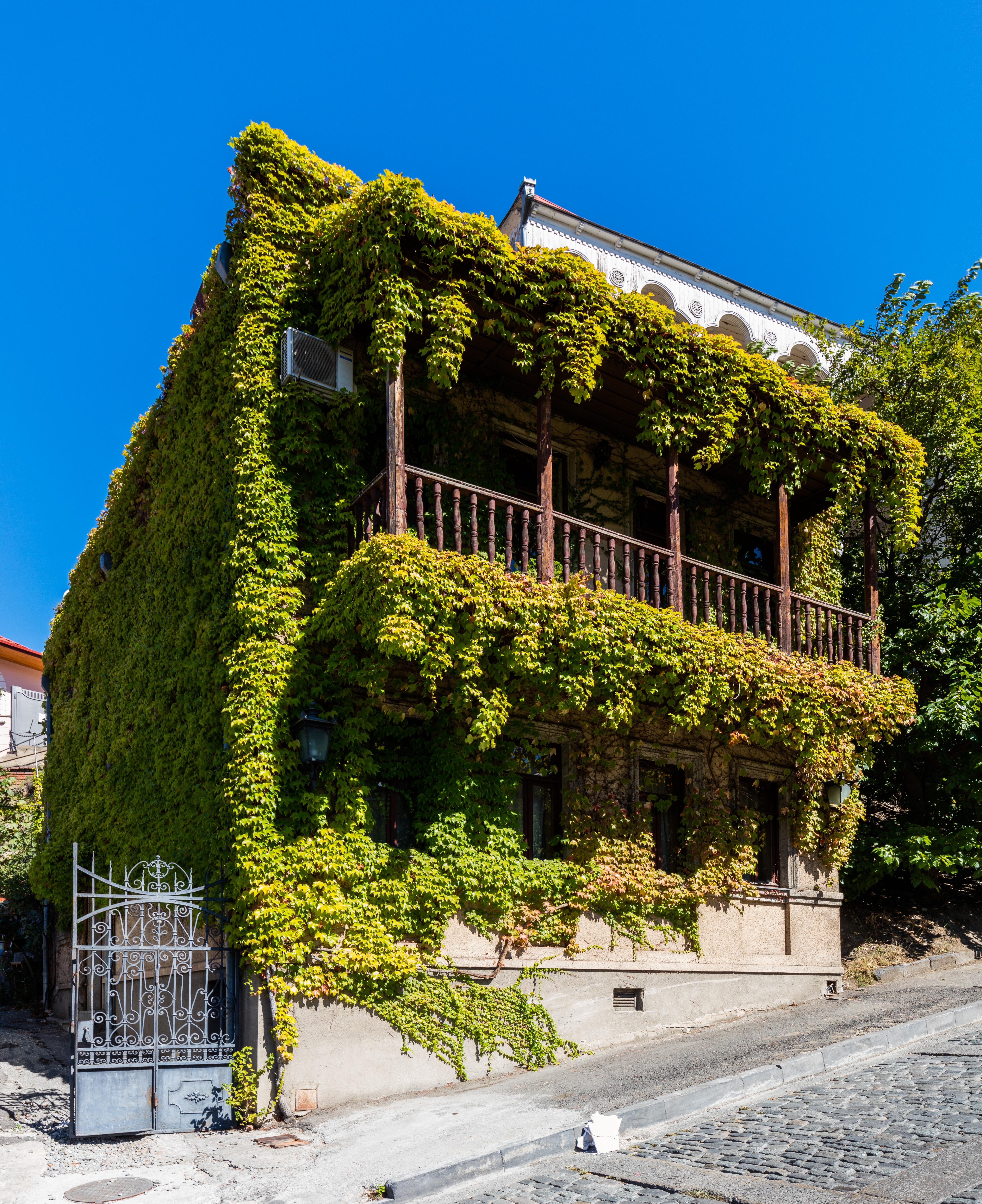 Edificio en Tiflis, Georgia